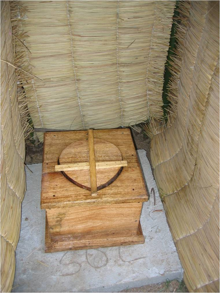 The inside of an Arborloo in Haiti, with a wooden seat and lid over a concrete slab.